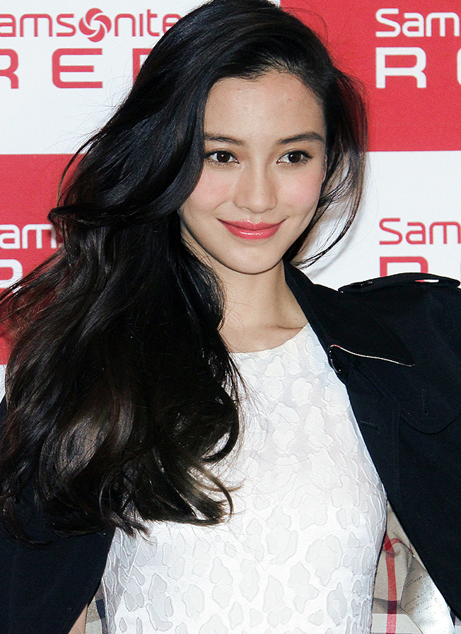 Angelababy in 2014. Image has been straightened and had colour balance adjusted from original